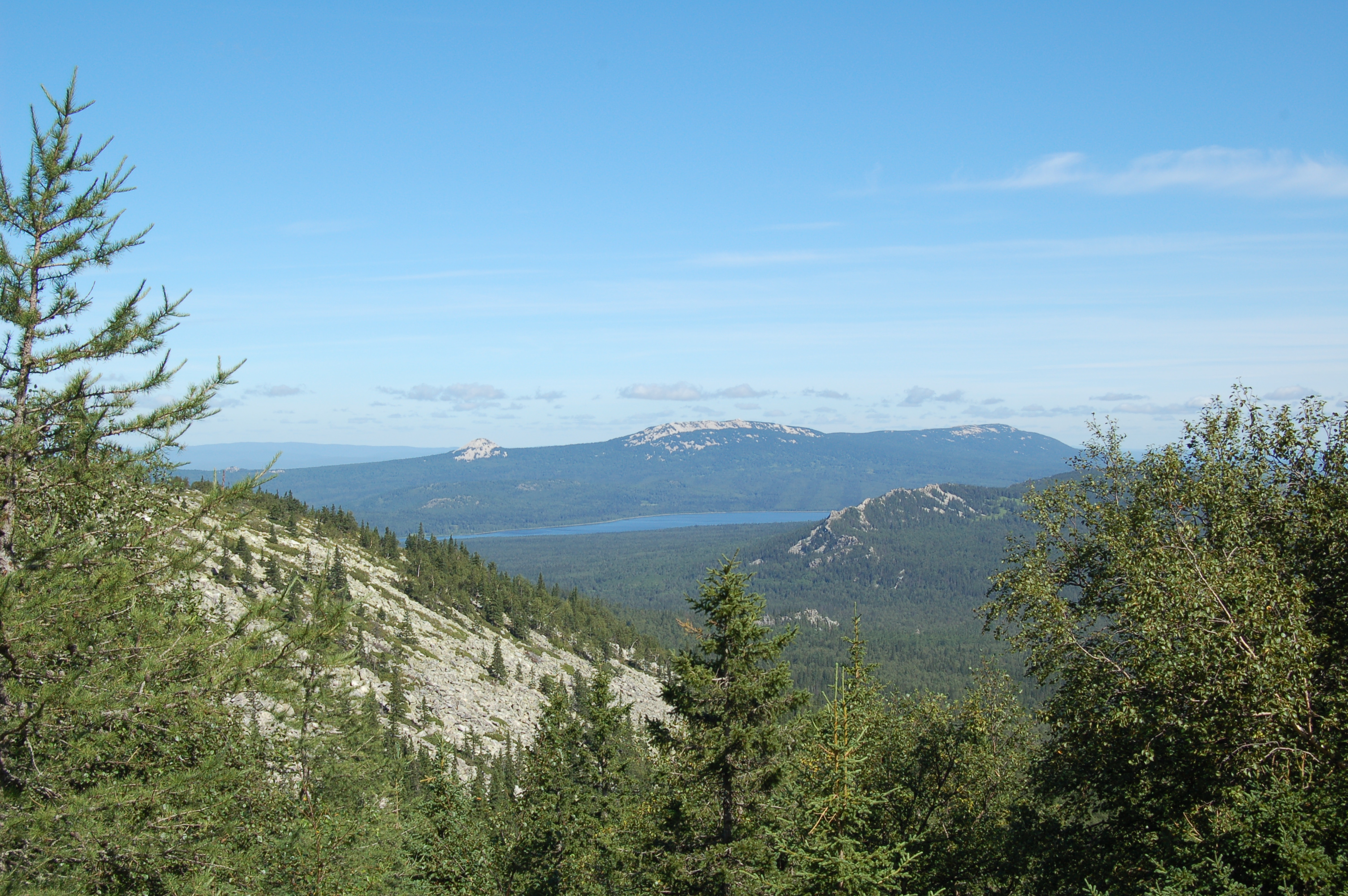 Zyuratkul' mountain range and Zyuratkul' lake as seen from Nurgush range, Zyuratkul' National Park, Russia. Trees in foreground are (left to right) Larix sibirica, Picea obovata, Betula sp..